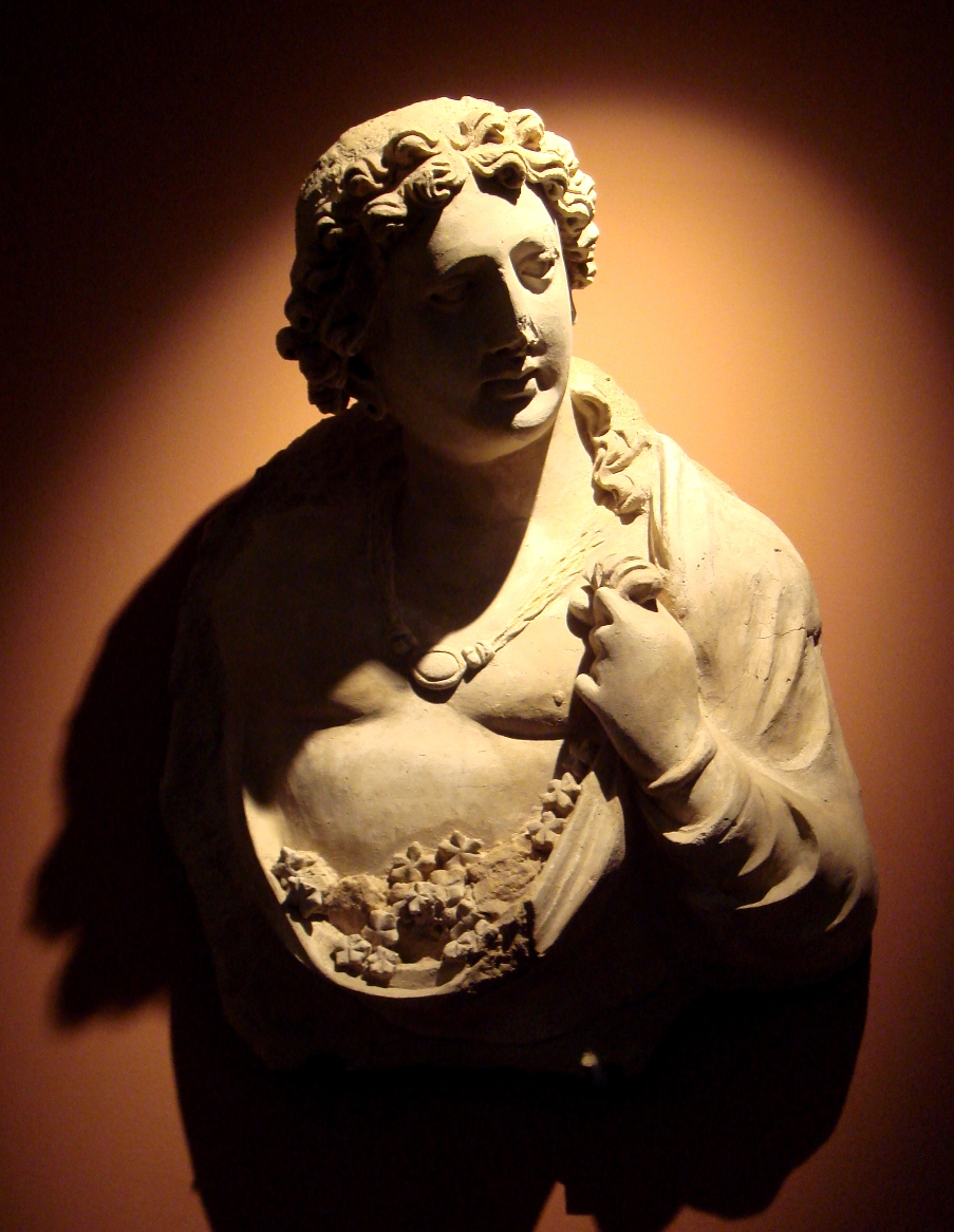 The Genius of Hadda, Gandhara. 2-3rd century CE. Musée Guimet. Personal photograph 2007.